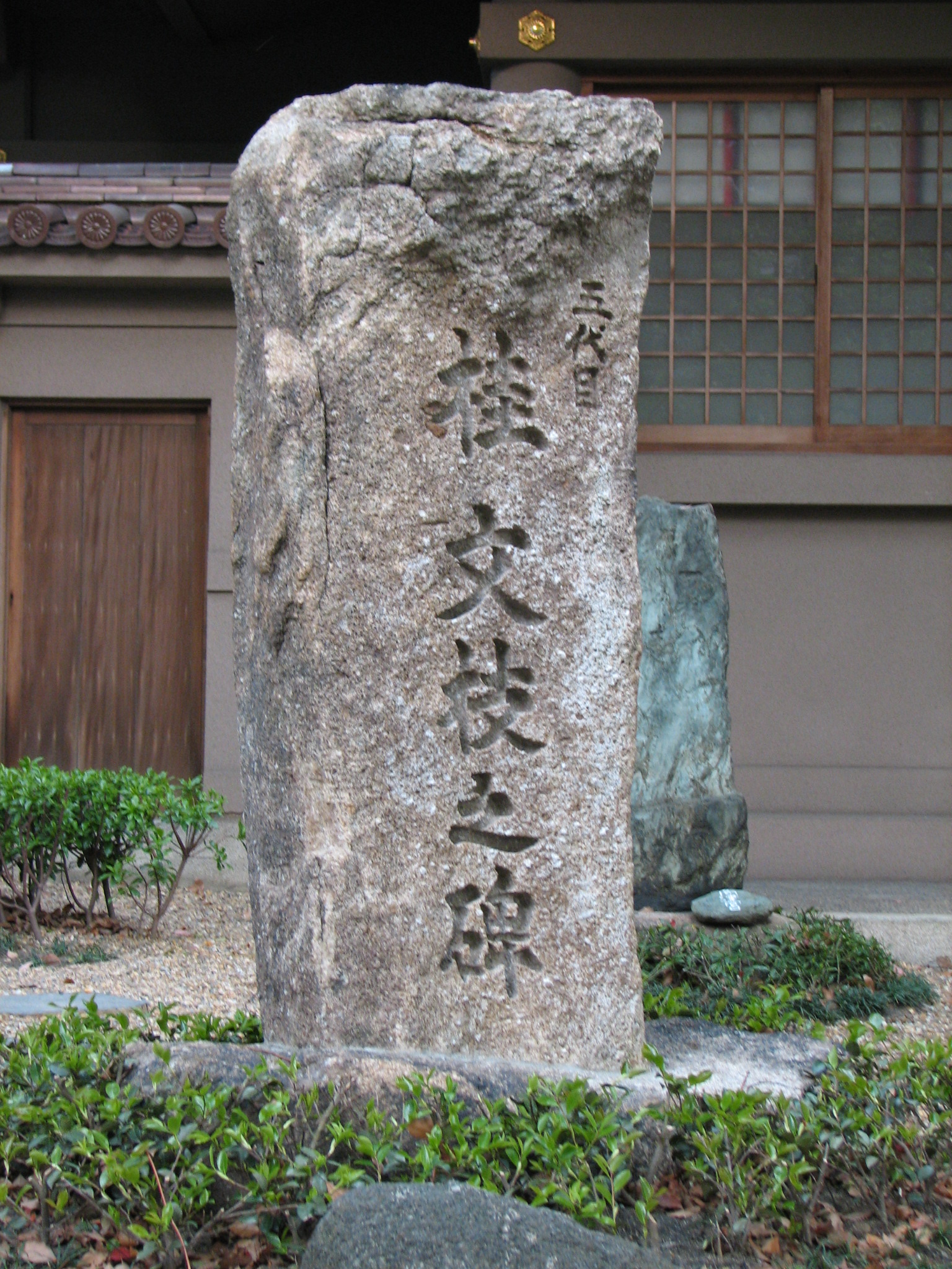 The monument of Katsura Bunshi in Kōzu-Gū shrine, Chūō, Ōsaka, Japan 高津宮（大阪市中央区）境内 桂文枝之碑